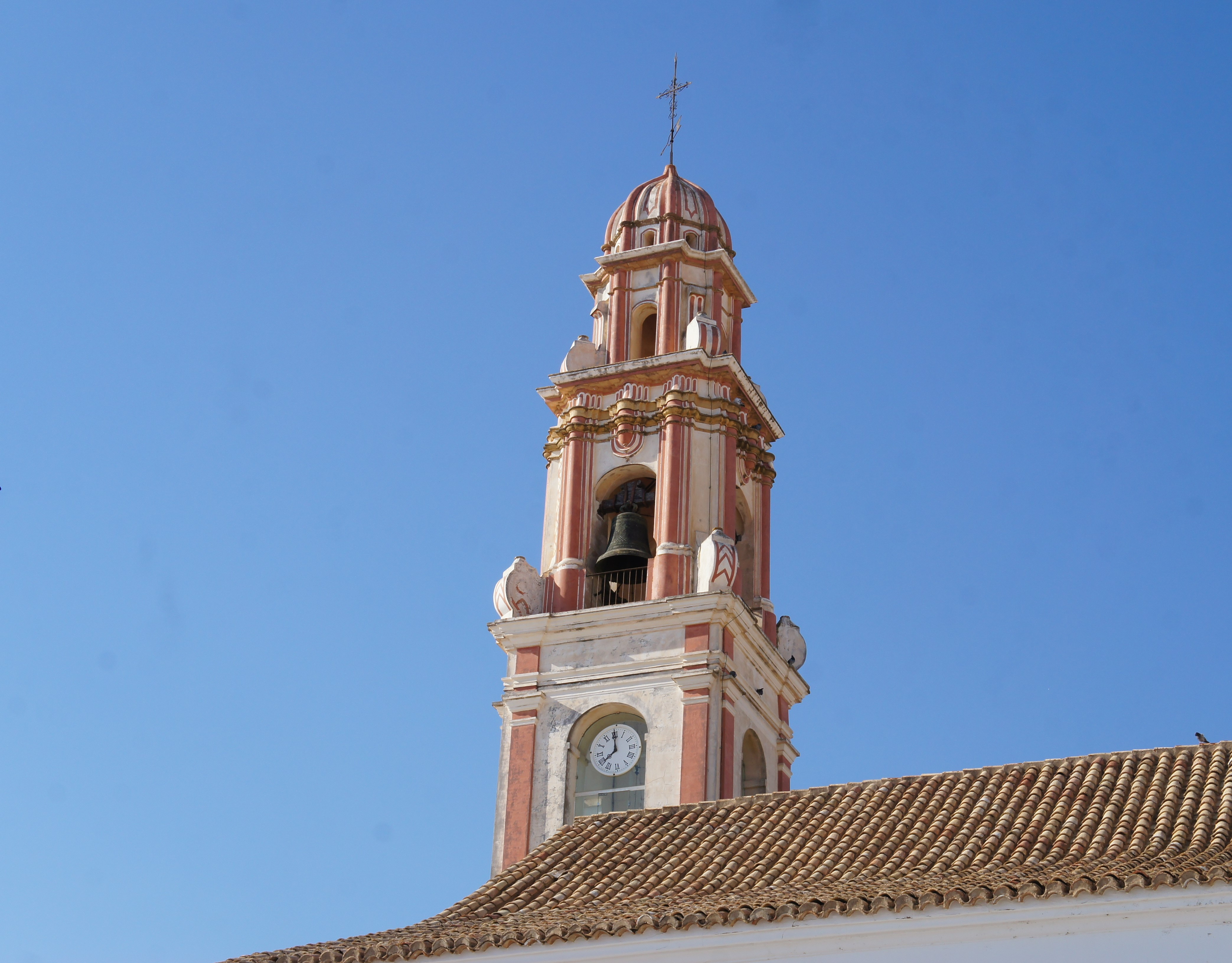 Detalle del campanario.